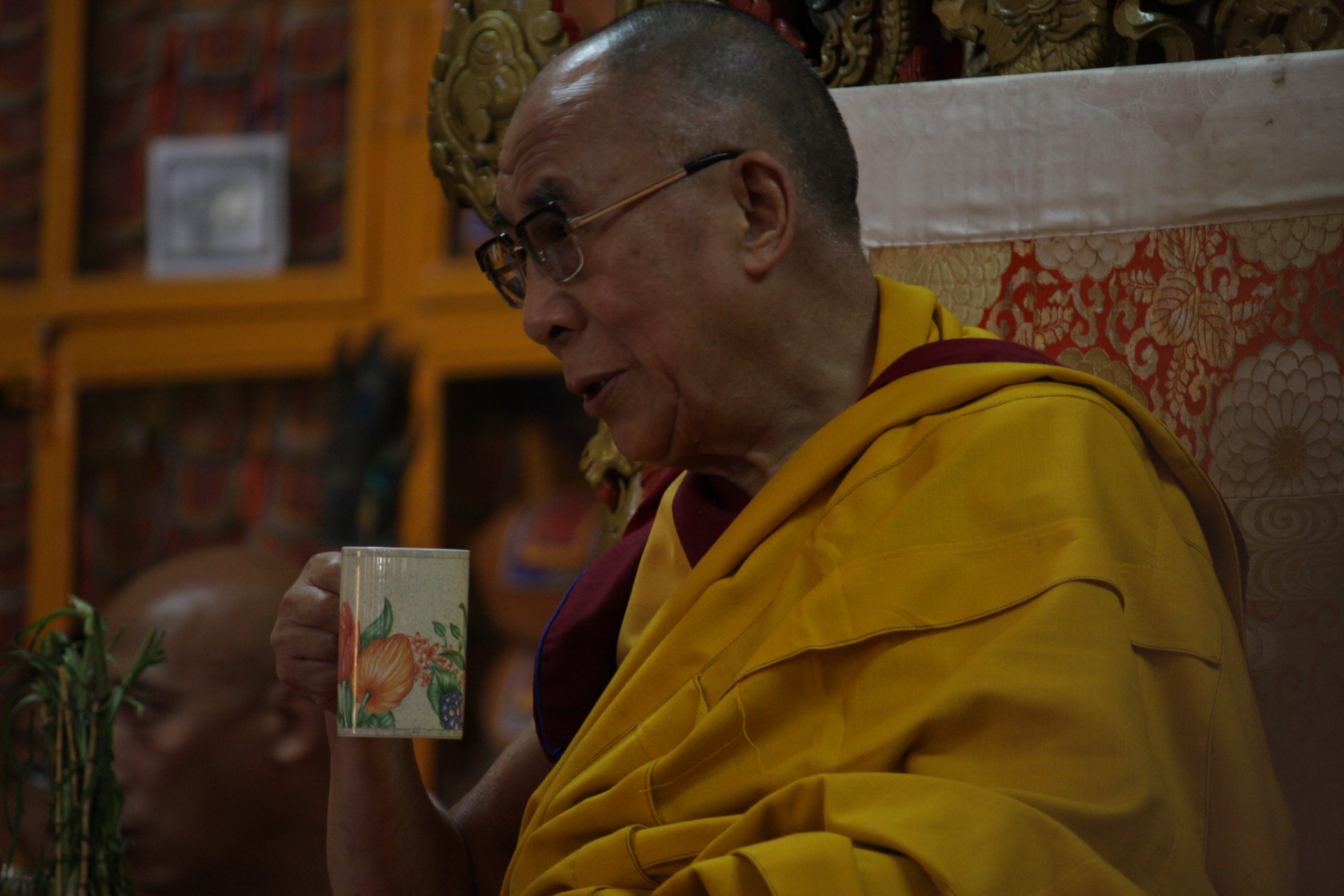 His Holiness the Dalai Lama XIV, Dharamsala, India